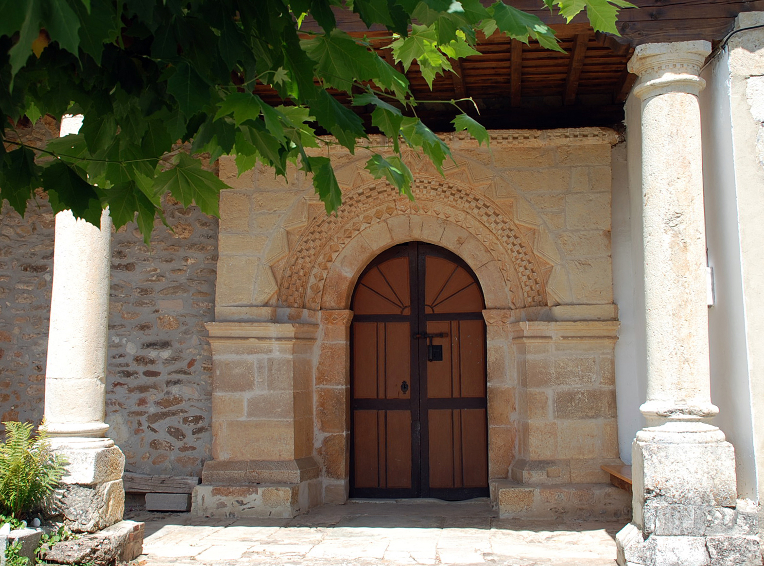 Romanesque church of Saint Adrian Martyr in Villalbeto de la Peña (Palencia, Castile and León). Dated in the XIIth century it was restored in 1996. It has a flamboyant rosette, walled, in the apse. Home Romance with four archivolts with capitals of figures human, animal and vegetal motifs. A single nave. Inside are two carvings of the Virgin with child, s. XVI.